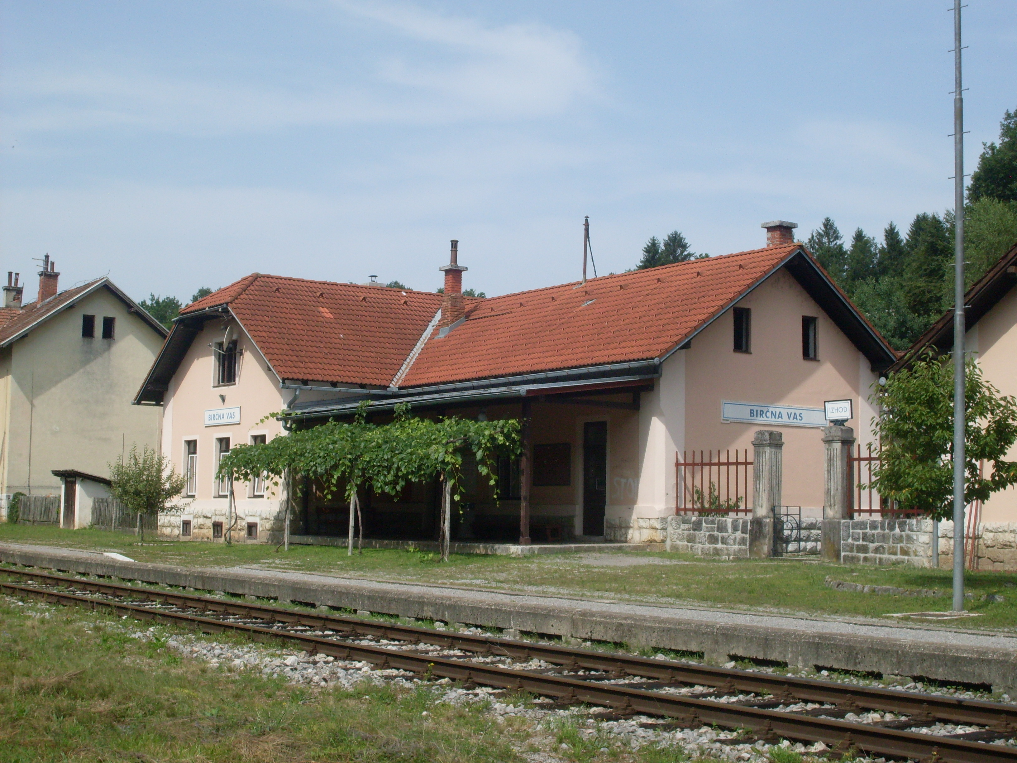 Railway halt in Birčna vasSlovenščina: Železniško postajališče Birčna vas